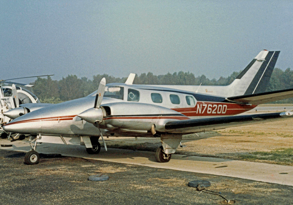 Beech A60 Duke N7620D P-162 at Corona Municipal Airport, California, in 1986.